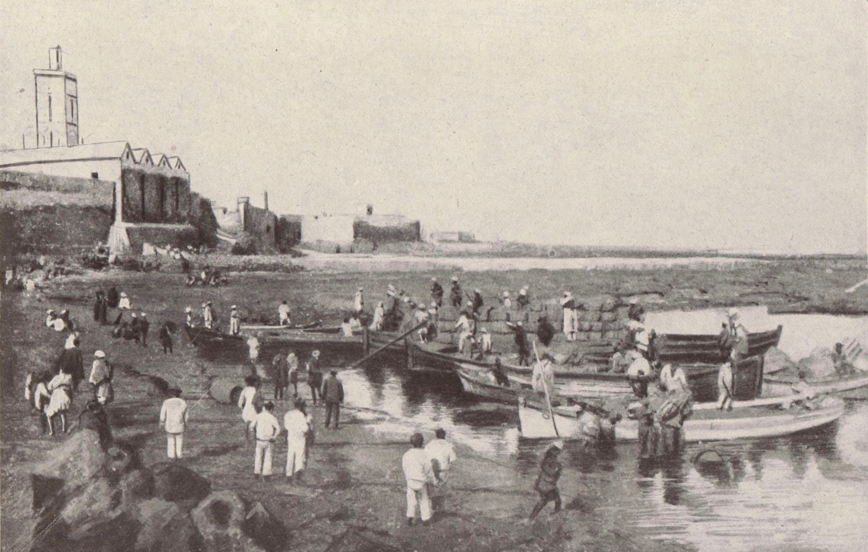 Port of Casablanca, Morocco in 1912. Image published in the monthly illustrated magazine France-Maroc, dated August 15, 1917.